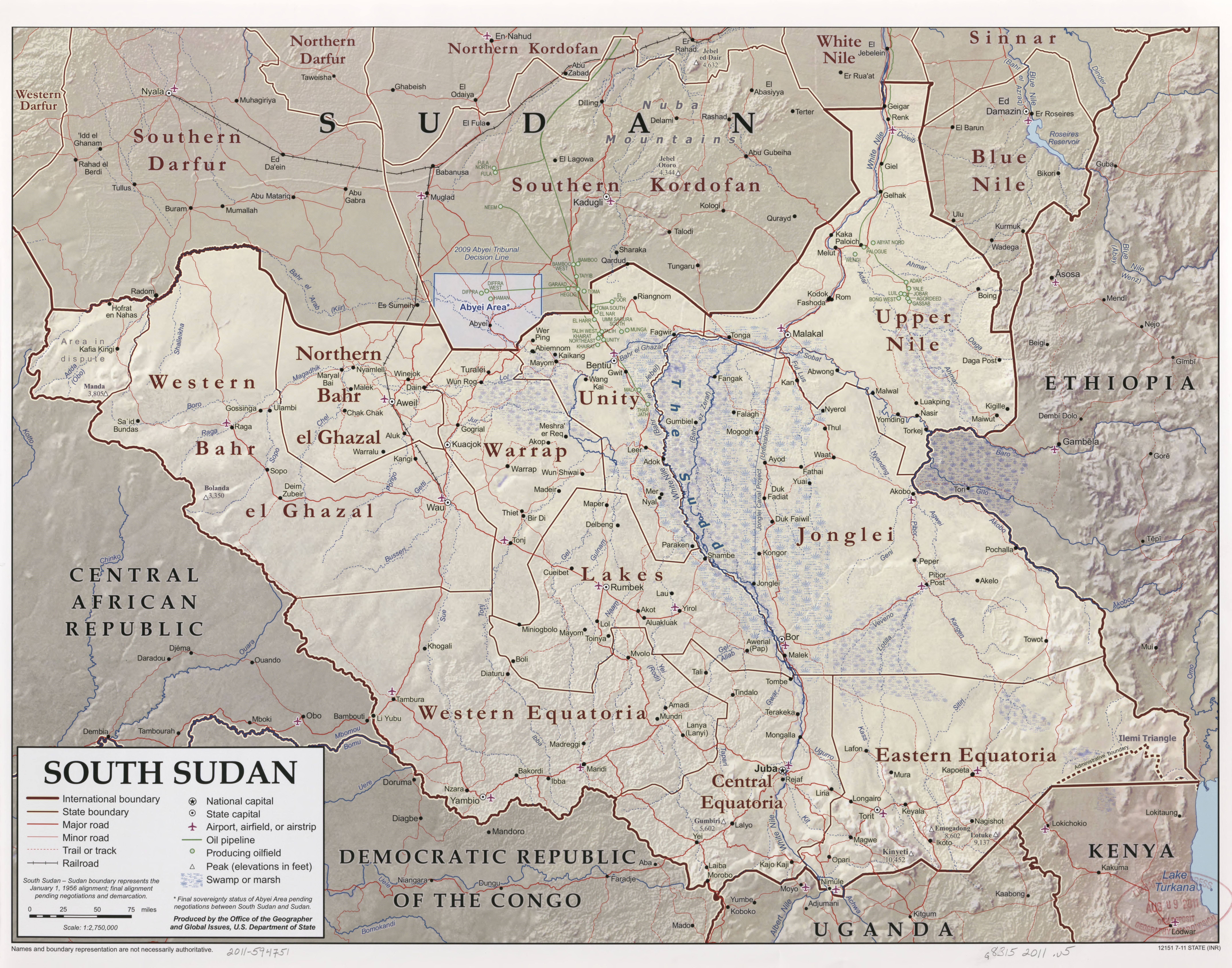 Relief shown by shading and spot heights. "12151 7-11 STATE (INR)." Available also through the Library of Congress Web site as a raster image.